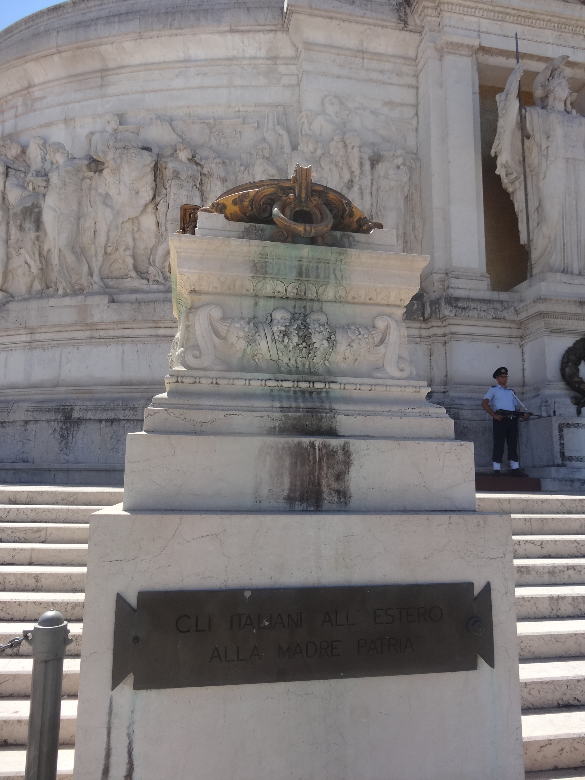 Vittoriano (Rome, 2016)